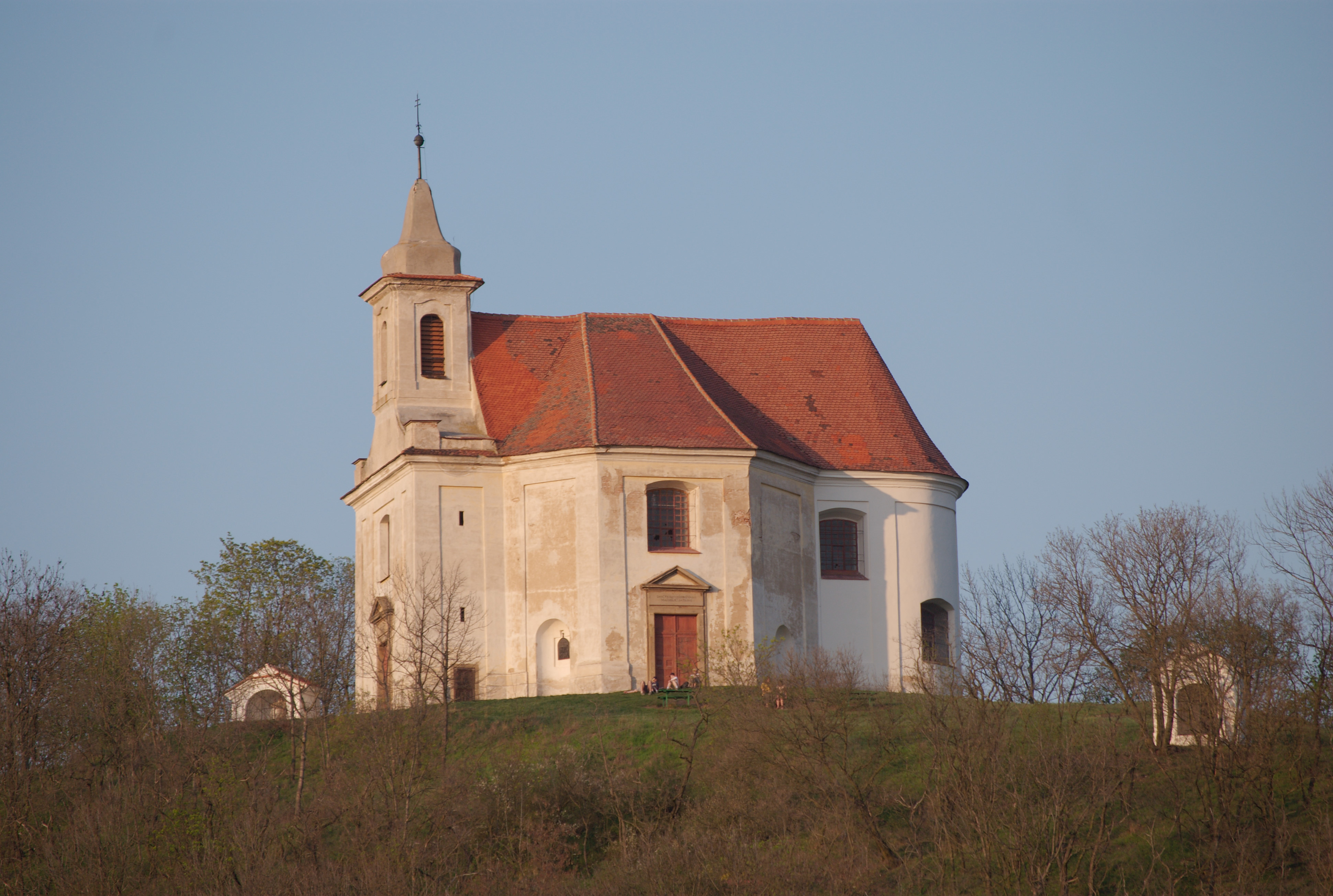 Dolní Kounice - Pilgrimage chapel of St. Anthony with the way of the Cross